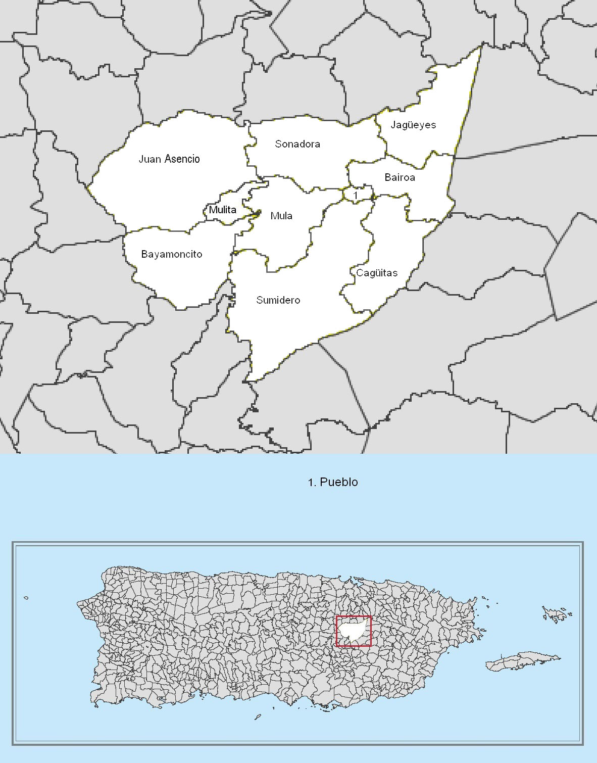 Barrios of Aguas Buenas, Puerto Rico locator map labeled